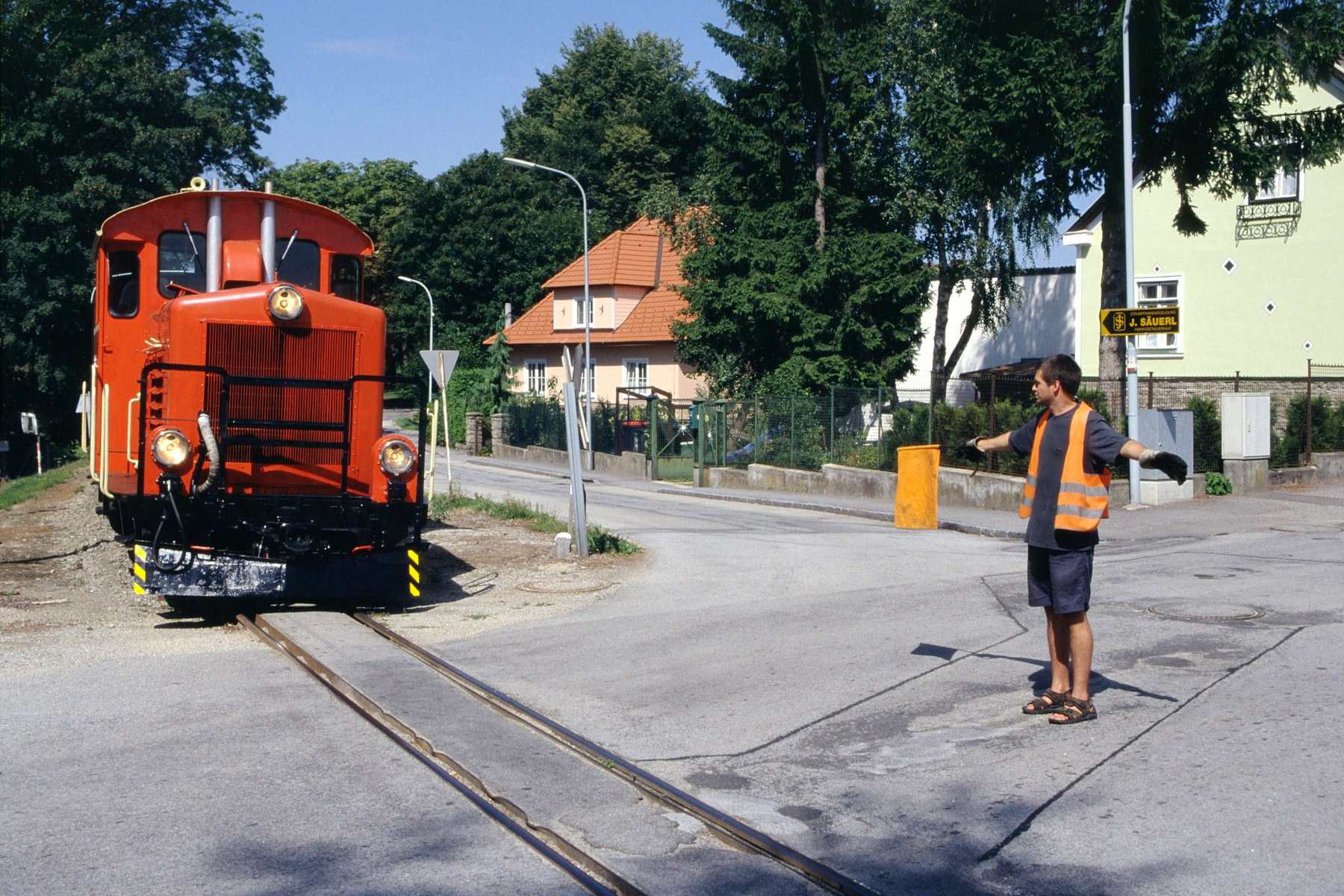 Narrow gauge diesel engine 2091.07 entering Heidenreichstein station on the preserved branchline of the Waldviertel Narrow Gauge Railways in Lower Austria. (scan from slide)